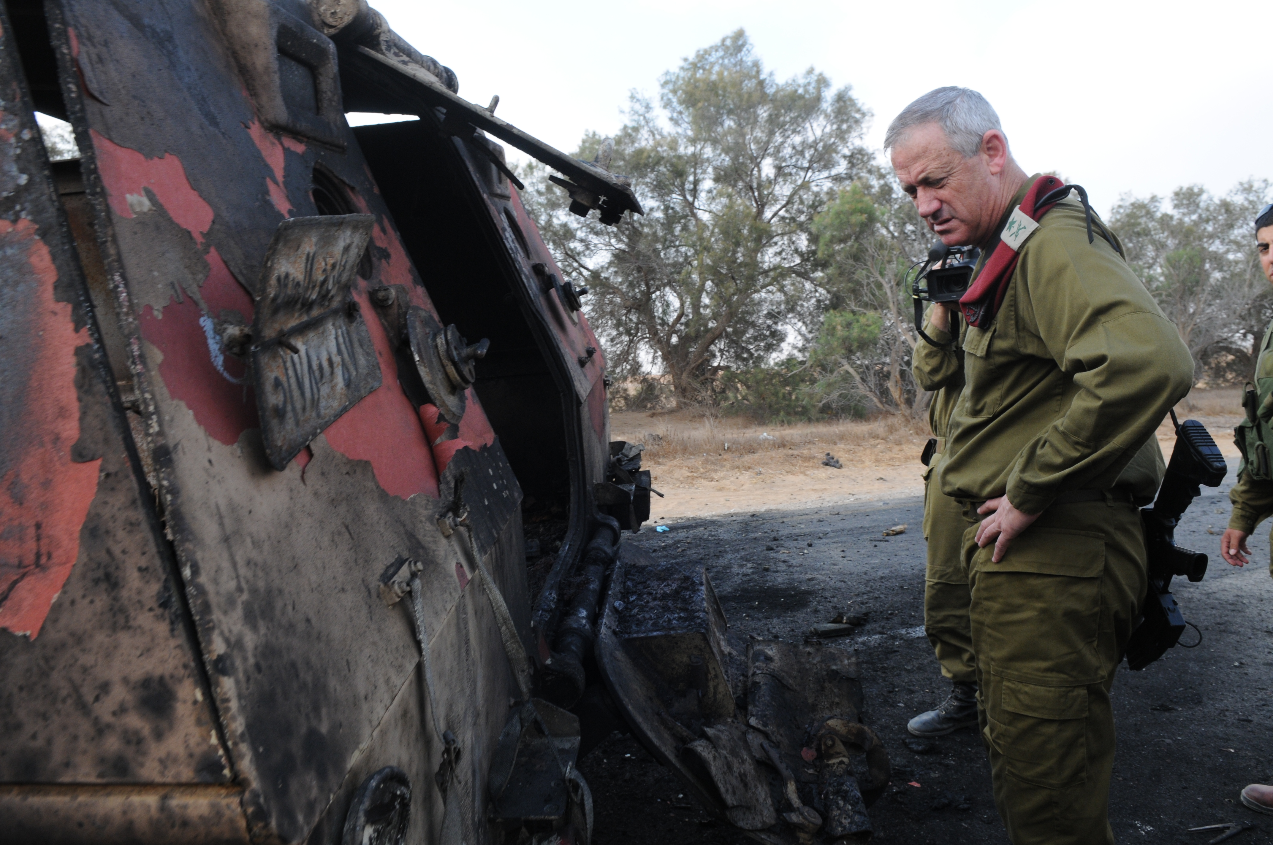 August 6, 2012 IDF Chief of Staff, Lt. Gen Banny Gantz visits the scene of the terrorist attack after the terrorists from Sinai failed to carry out an attack on Israeli soil with a hijacked Egyptian tank. Photo: Gal Ashuach, IDF Spokesperson's Unit